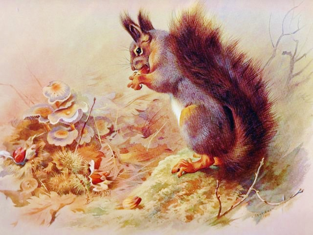 "Squirrel" illustration from "British Mammals" by A. Thorburn, 1920